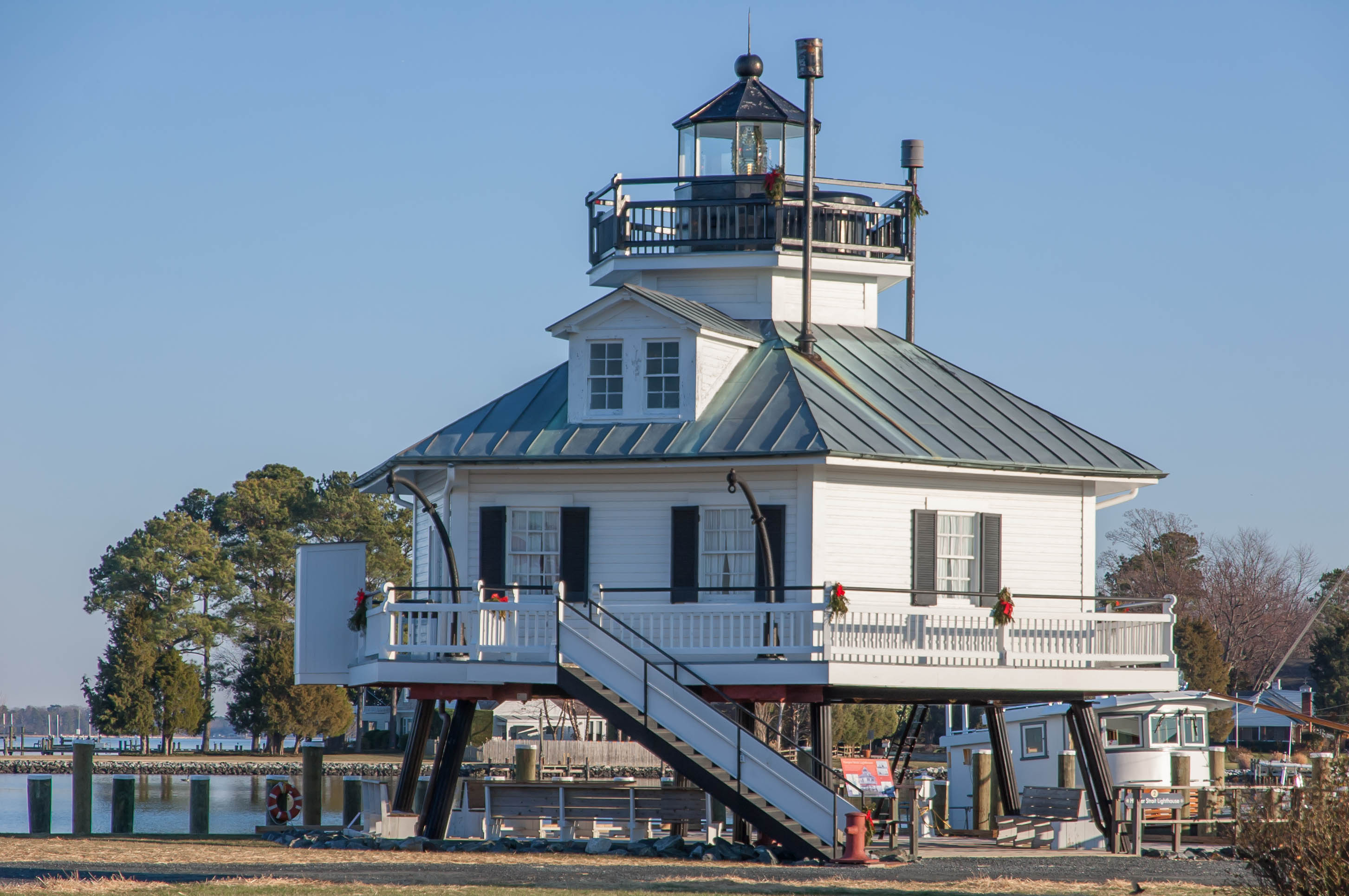 A screw-pile lighthouse built that has been moved to its current location at the Chesapeake Bay Maritime Museum, St Michaels, MD. It was first built in 1867, torn loose by ice and lost, rebuilt in 1879